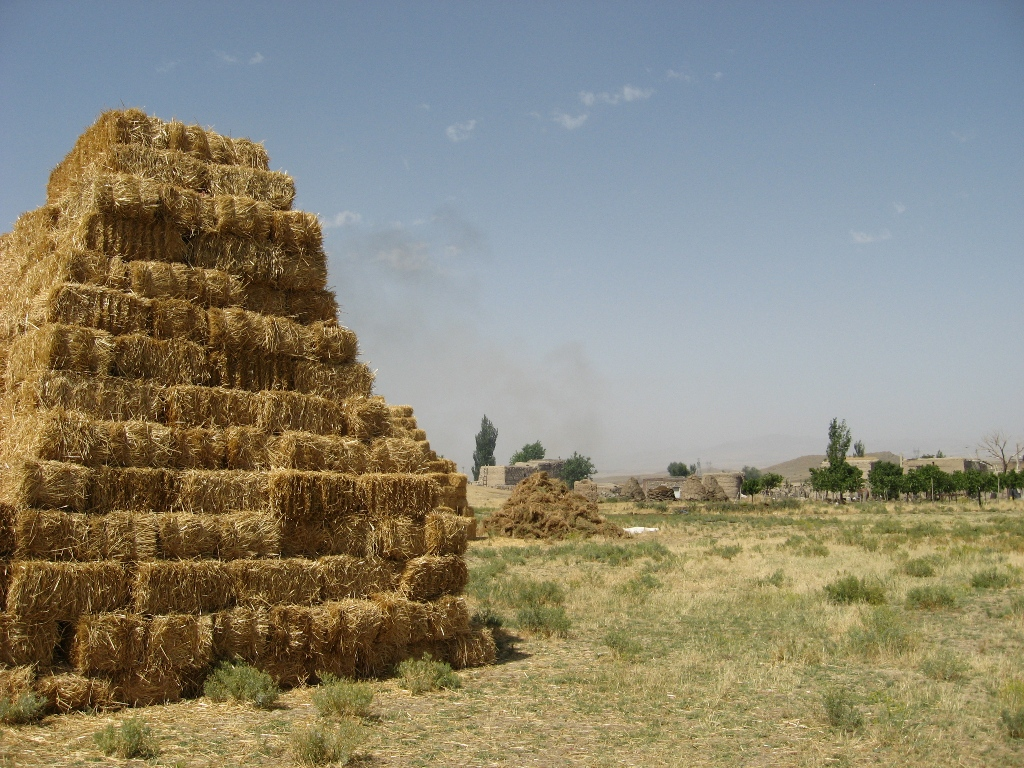 تابستان